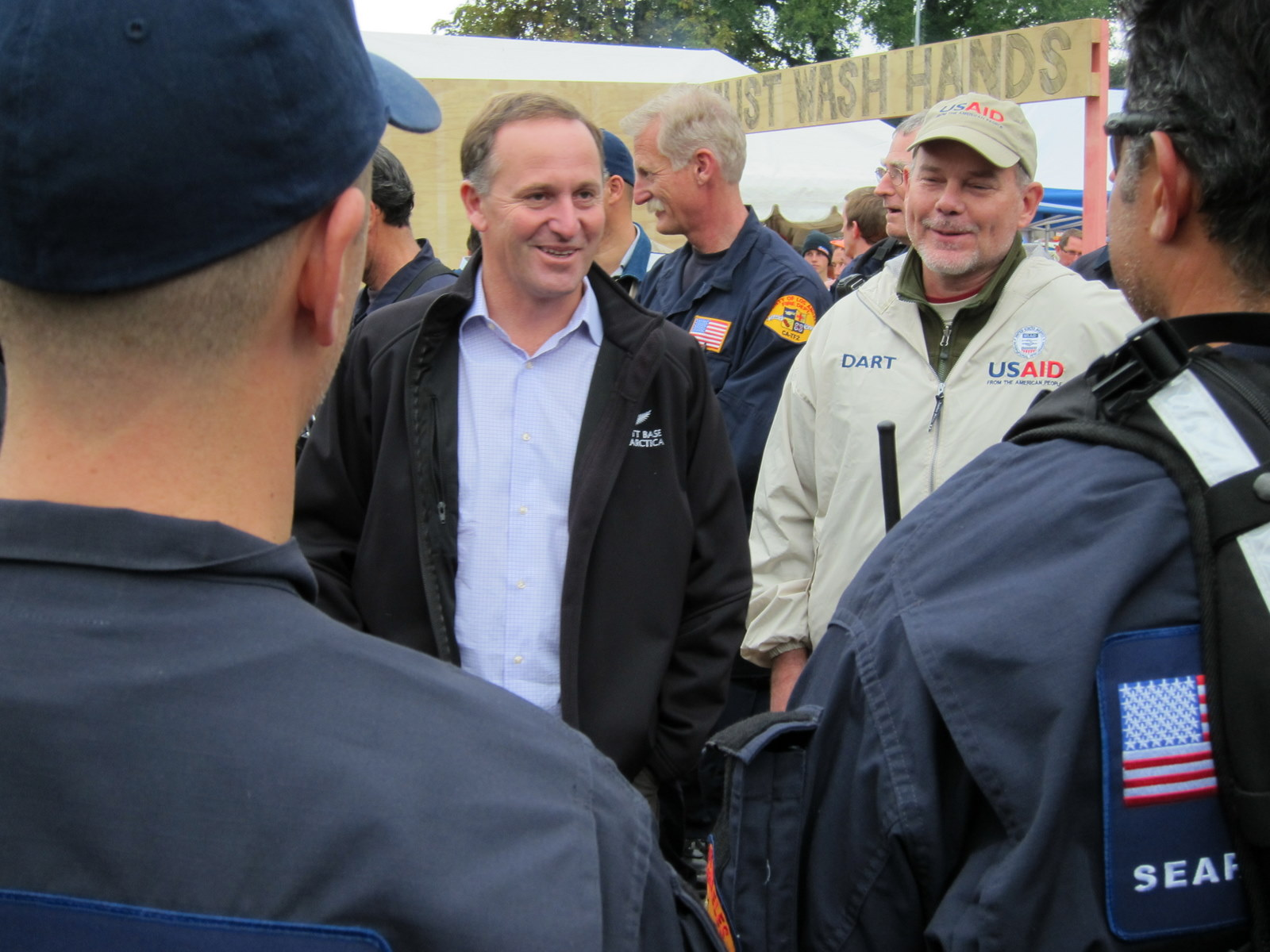 New Zealand Prime Minister John Key visiting the USAID Disaster Assistance Response Team (DART) base of operations at Latimer Square, Christchurch, NZ. Key is thanking DART Team leader Al Dwyer and talking to the team. (Photo Credits – USAID/T. Betz)